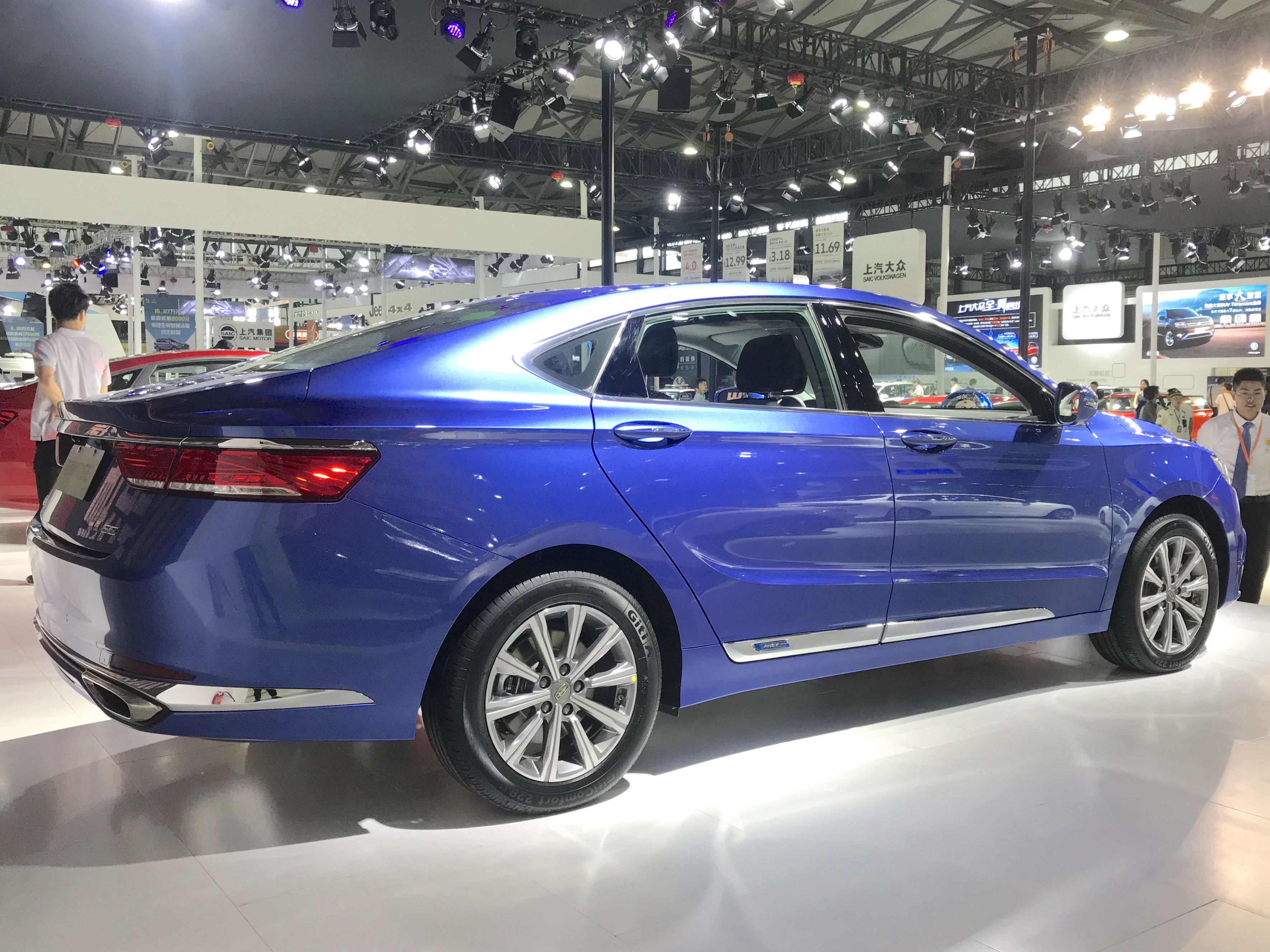 Geely Borui GE facelift rear